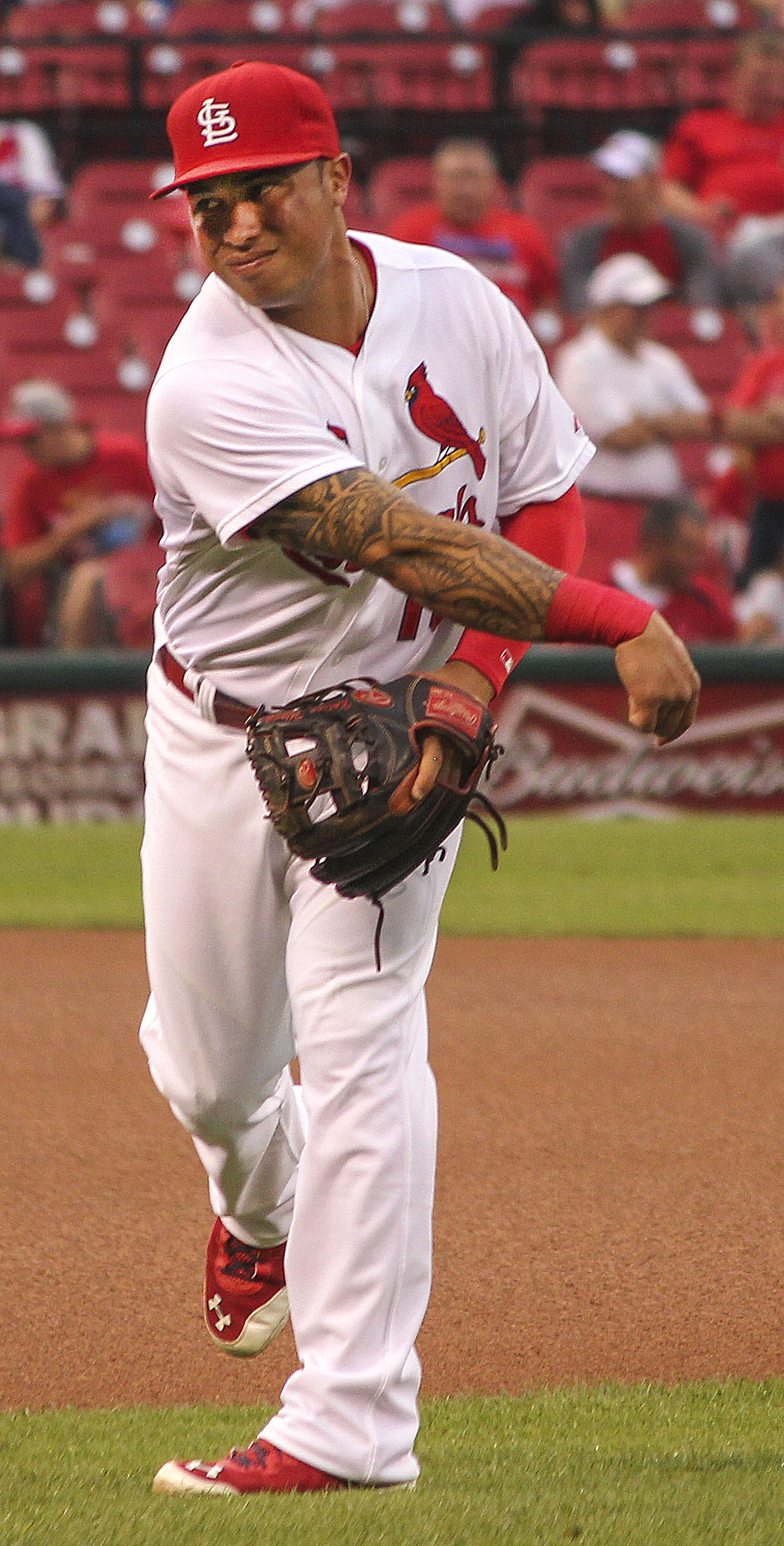 Cardinal Second Baseman Kolton Wong.